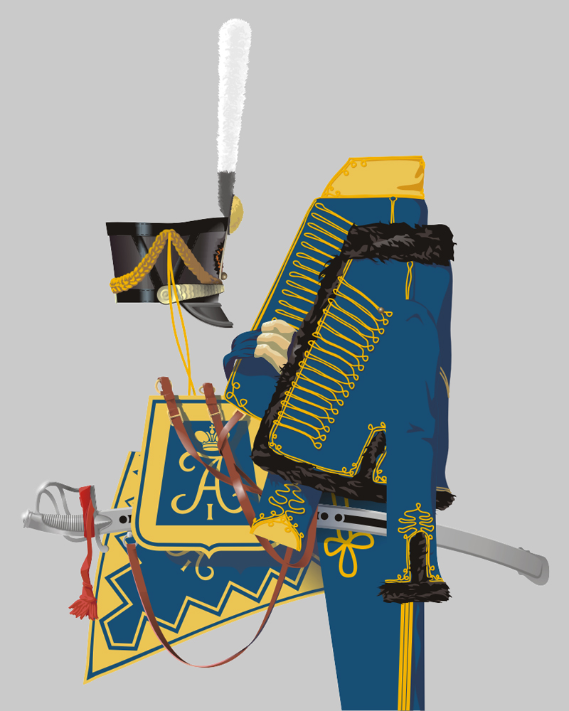 Trooper of Mariupol Hussar regiment’s full dress: dolman, pelisse, barrel sash, breeches, shako (here of 1812), shabraque, sabretache & sabre. Russian army of 1812